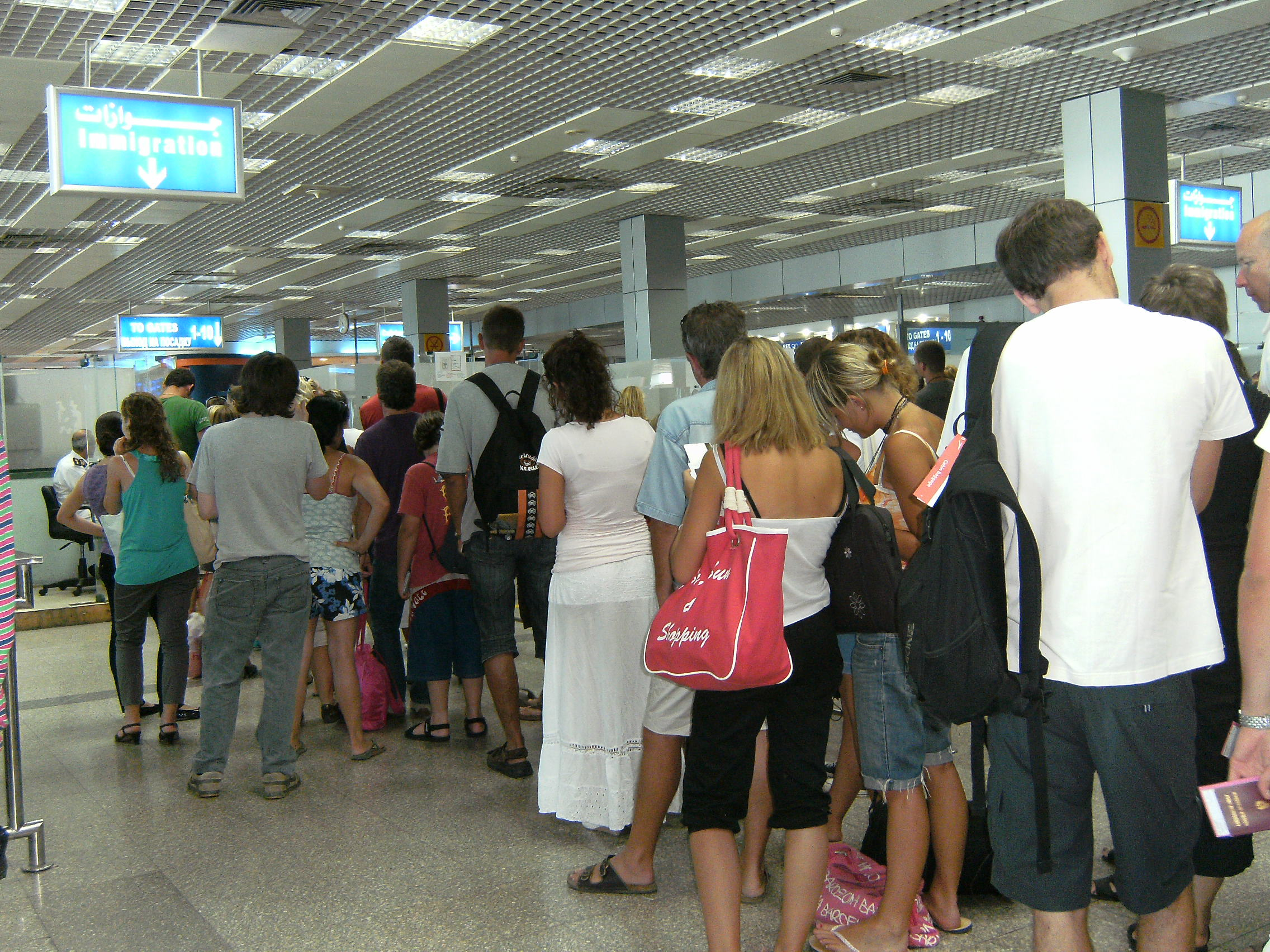 Immigration